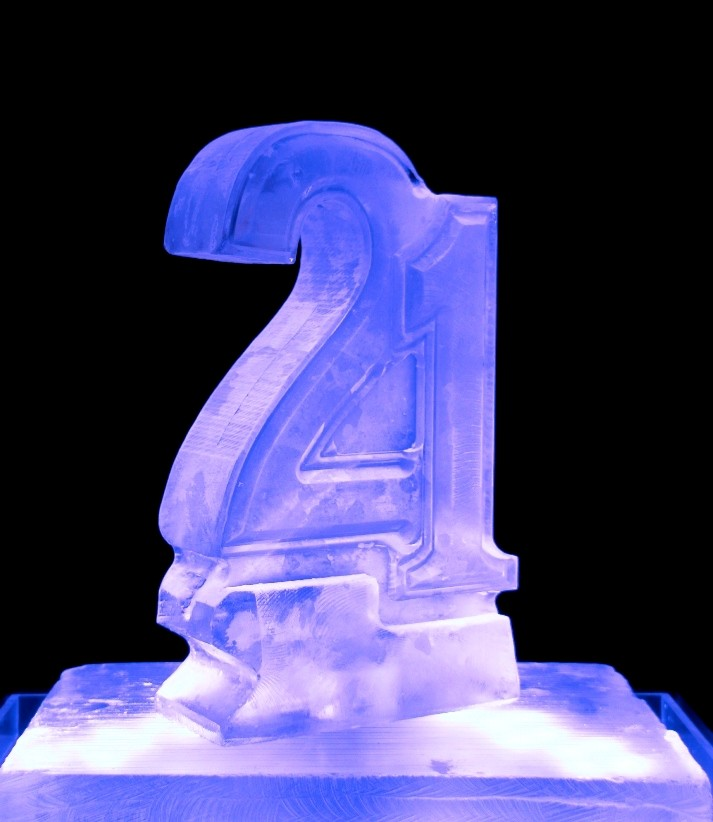 Ice Luge